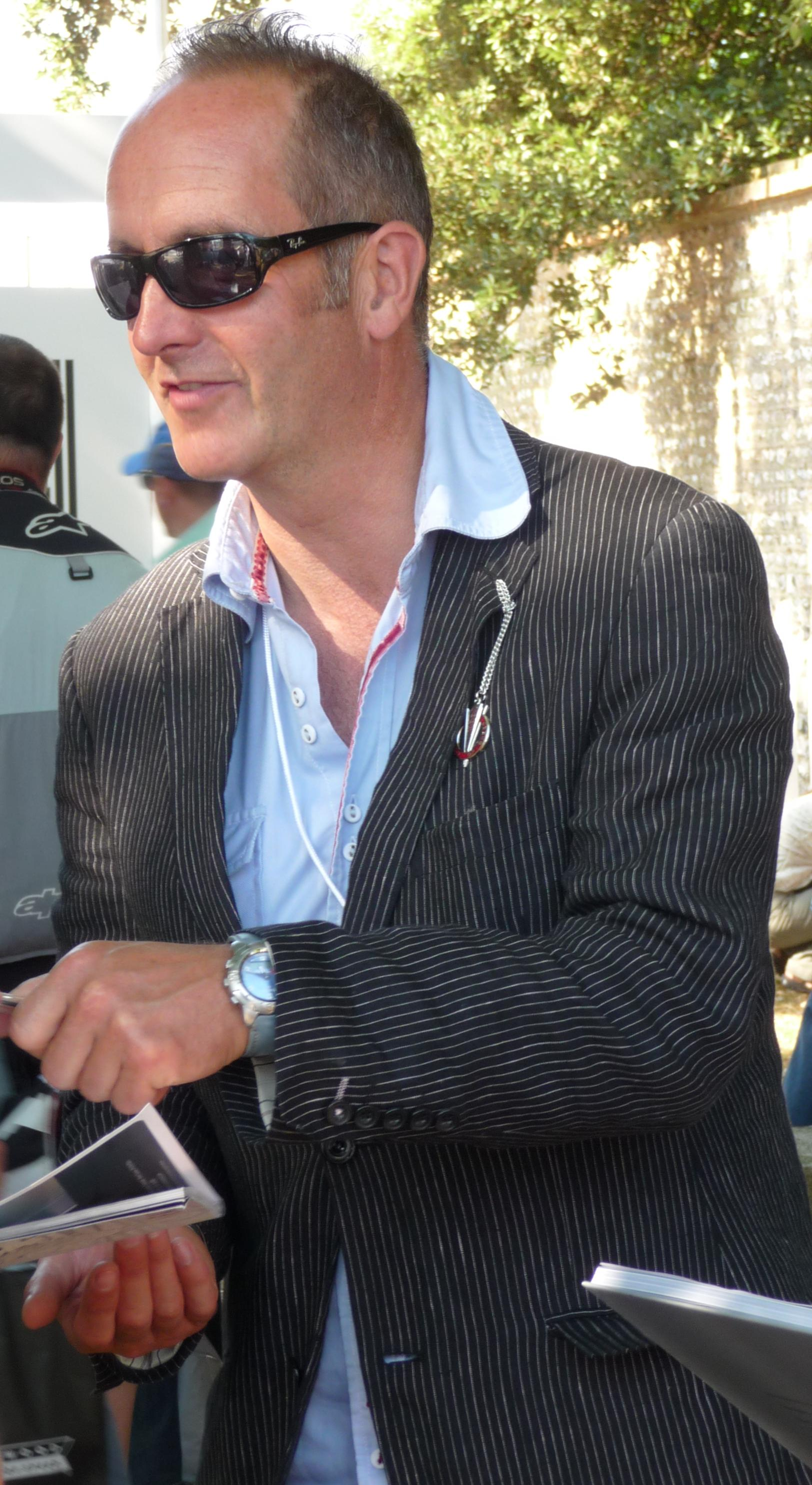 British designer and television presenter Kevin McCloud signing autographs outside the drivers area on the first day of Goodwood Festival of Speed 2009.